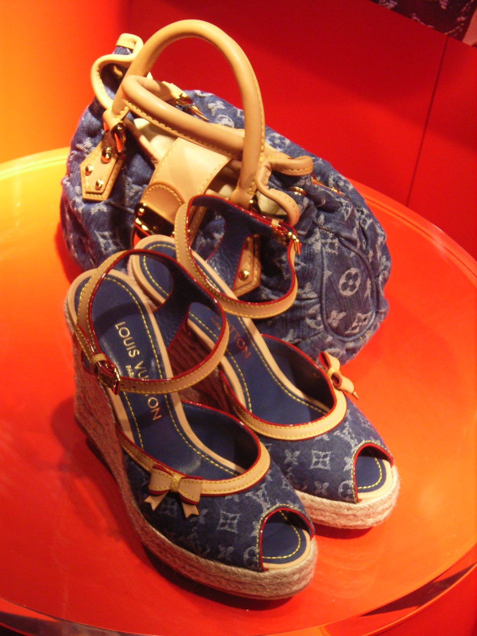 路易·威登（Louis Vuitton）at HK Landmark, Central, Hong Kong